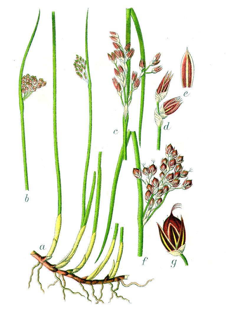 Juncus balticus Willd., syn. Juncus pyrenaeus Timb.-Lagr. & Jeanb. Original Caption Ostsee-Binse, Juncus balticus